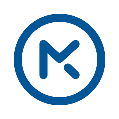 Mozaik knjiga krug logo